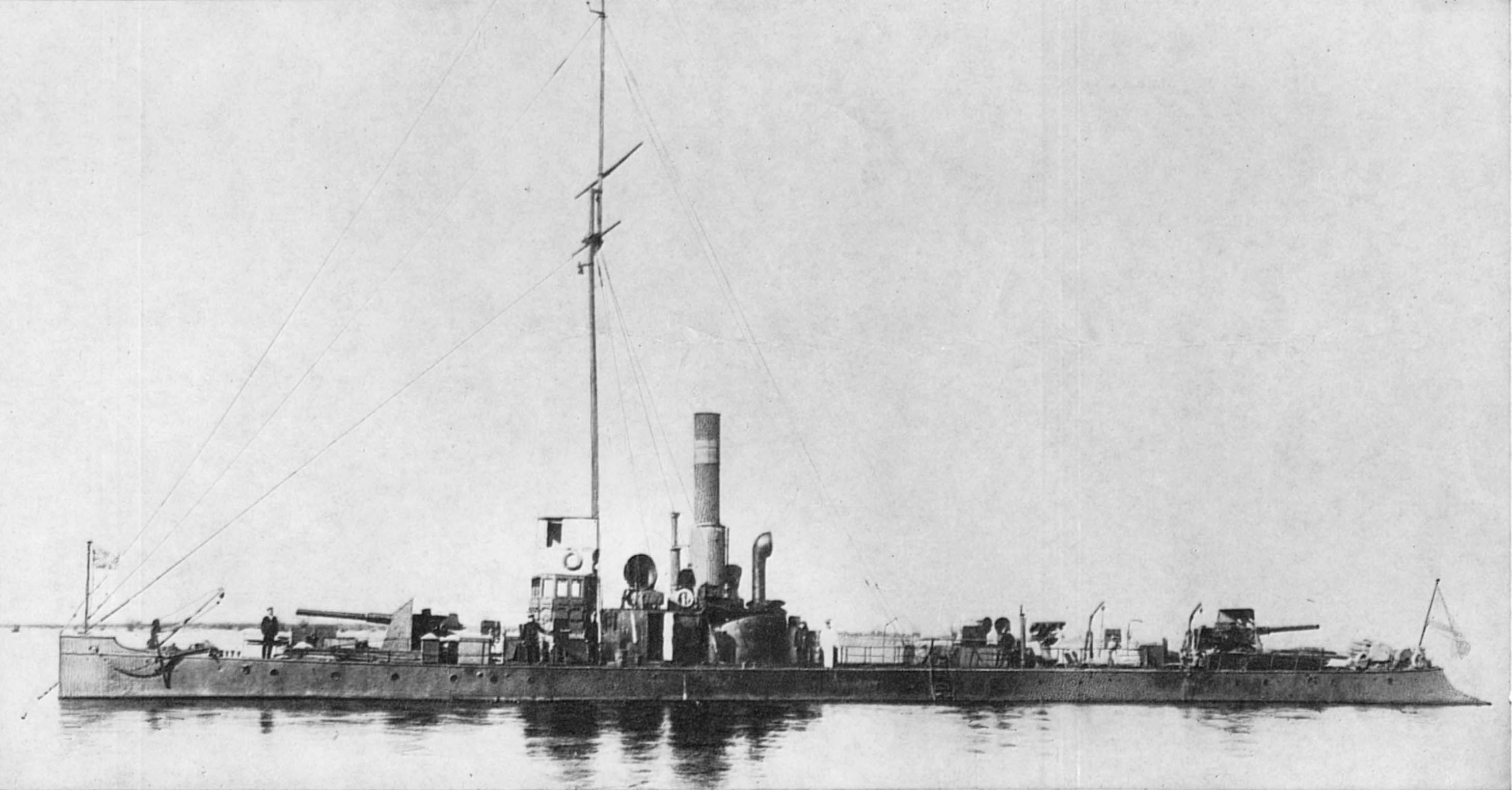 Russian gunboat Zyryanin. Probably before the Revolution 1917.